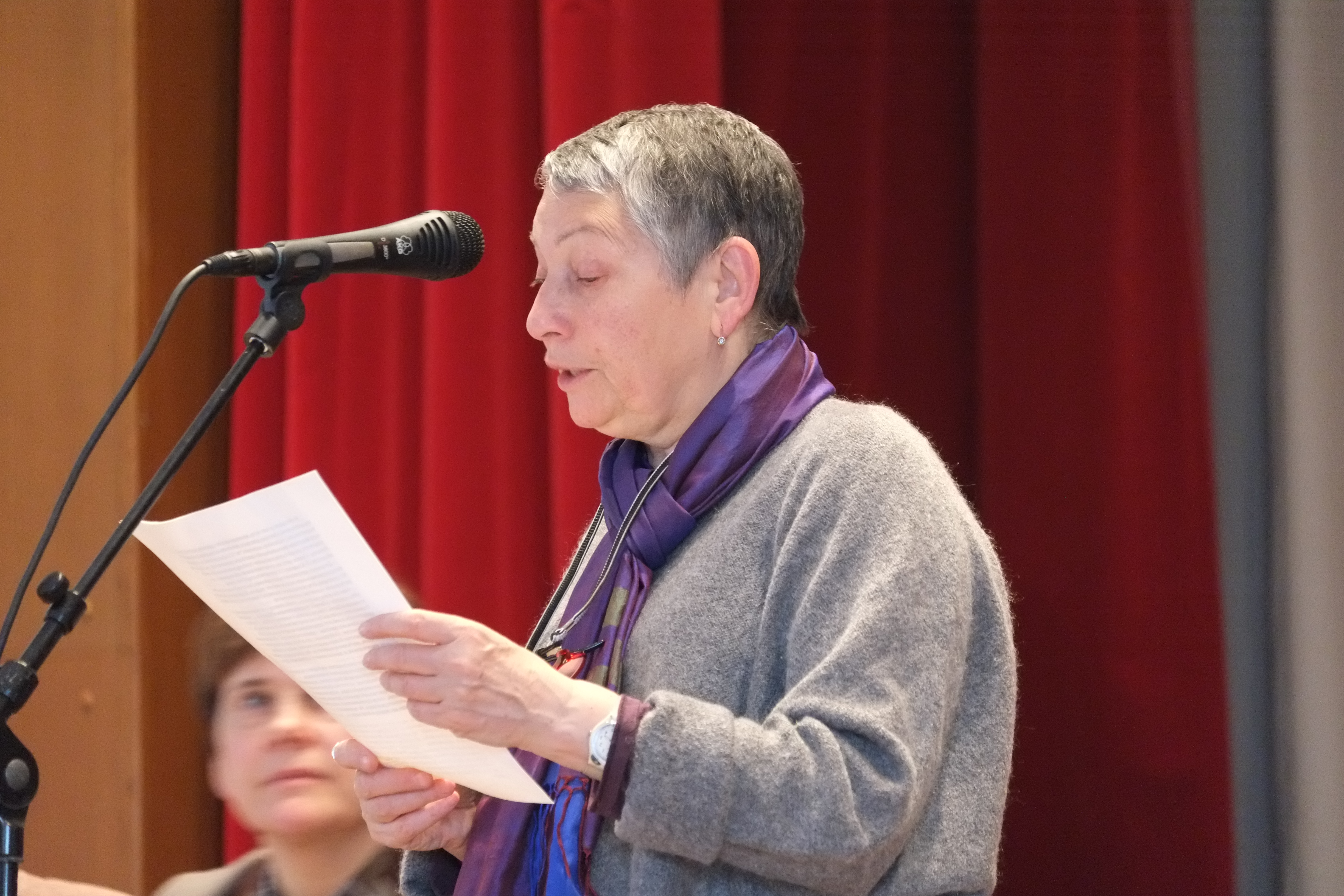 The first session of the intellectuals Congress "Against war, against self-isolation of Russia, against restoration of totalitarism", Moscow, March 19 2014, Large hall of Library For Foreign Literature.